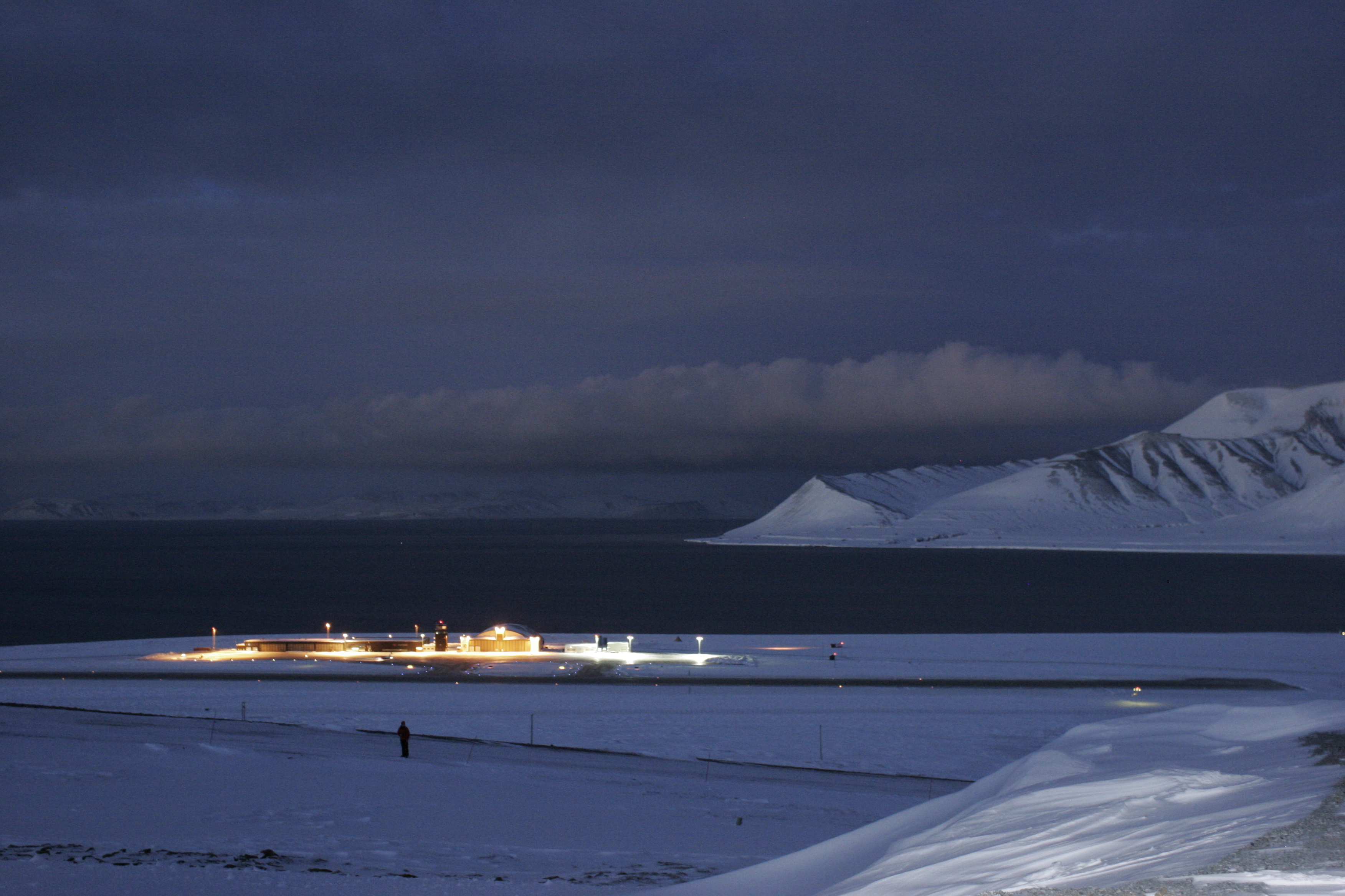 Svalbard Airport, Longyear, Norway